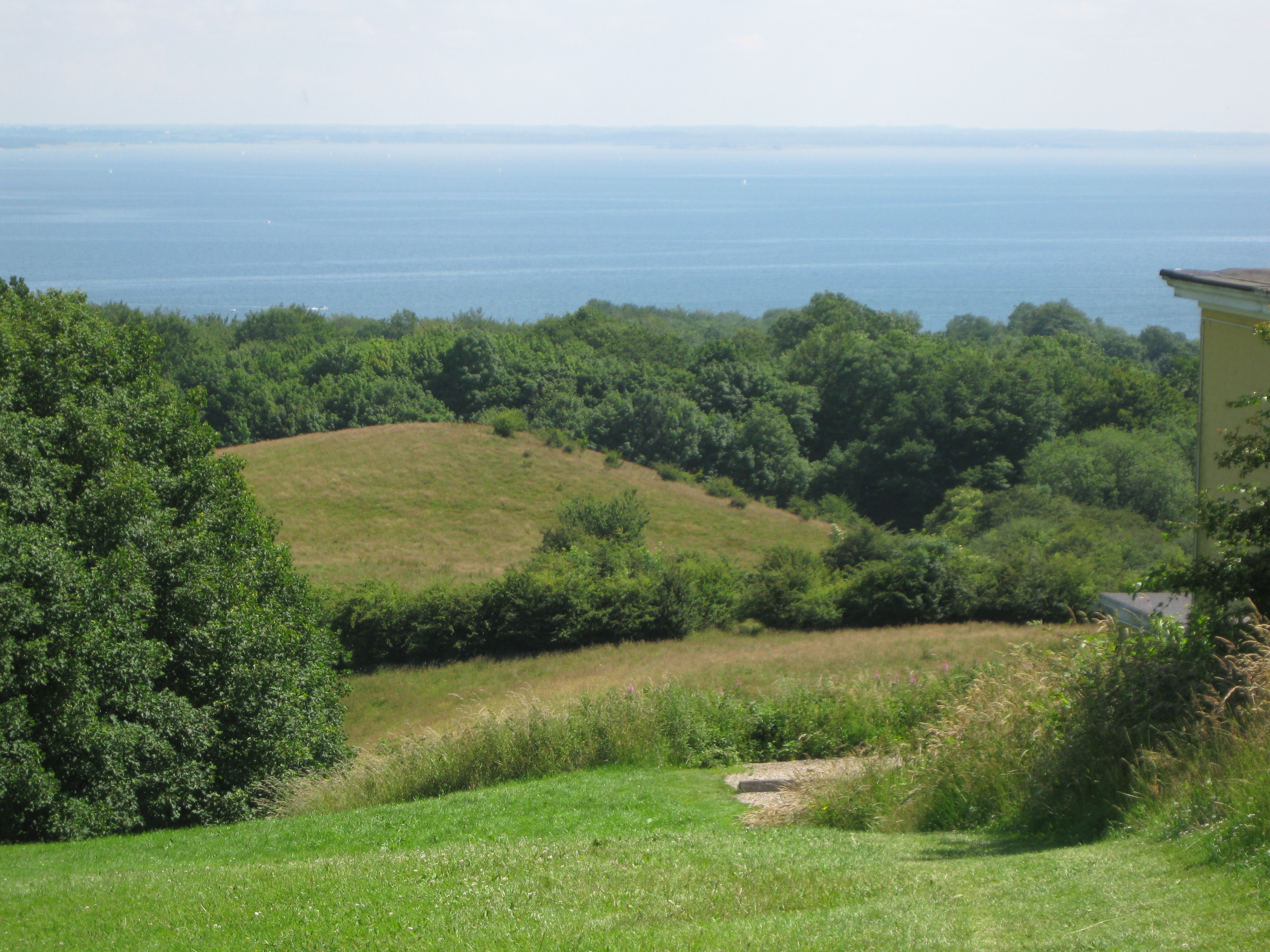 View at the belt "Lillebælt" from the memorial hill "Skamlingsbanken" located south of "Kolding" in South-Central Jutland (south Denmark).